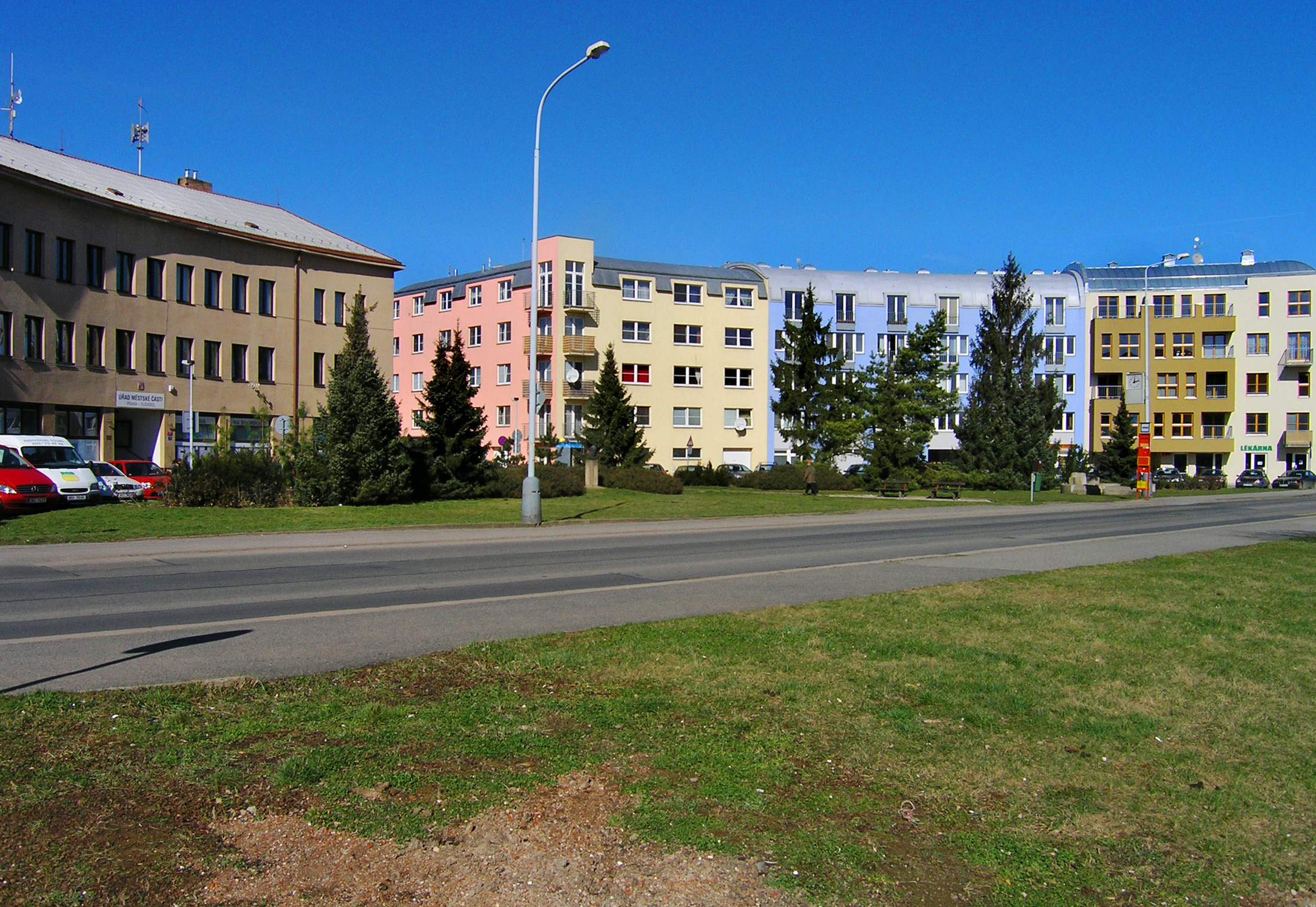 Suchdolské square in Suchdol, Prague